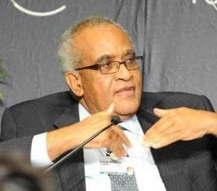 DAR ES SALAAM/TANZANIA, 7MAY10 - Salim Ahmed Salim (Prime Minister of Tanzania (1984-1985); Chairman, Mwalimu Julius K. Nyerere Foundation, Tanzania) at the World Economic Forum on Africa held in Dar es Salaam, Tanzania, May 7, 2010.